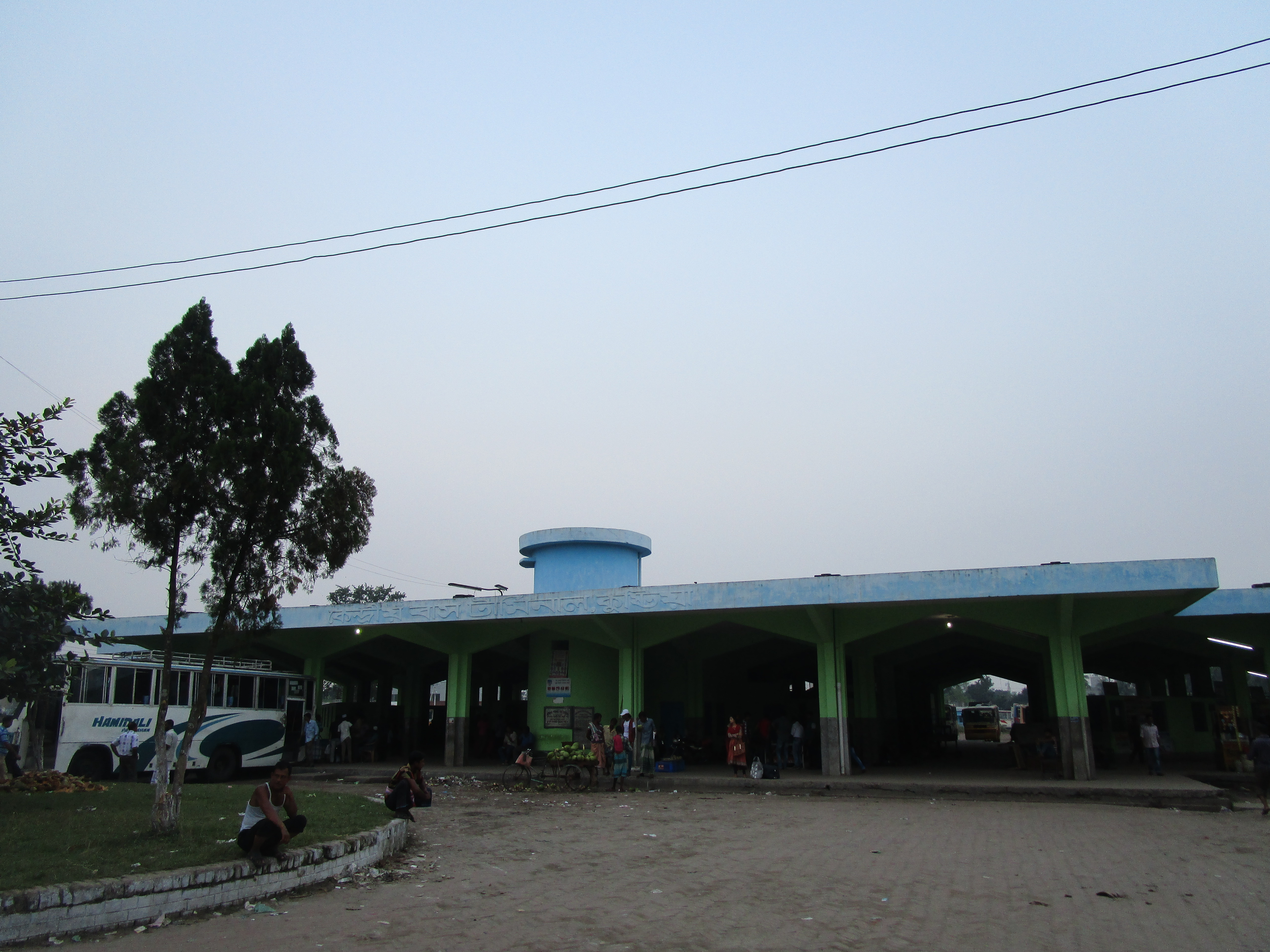 Kushtia Central Bus Terminal at Kushtia Sadar Upazila.